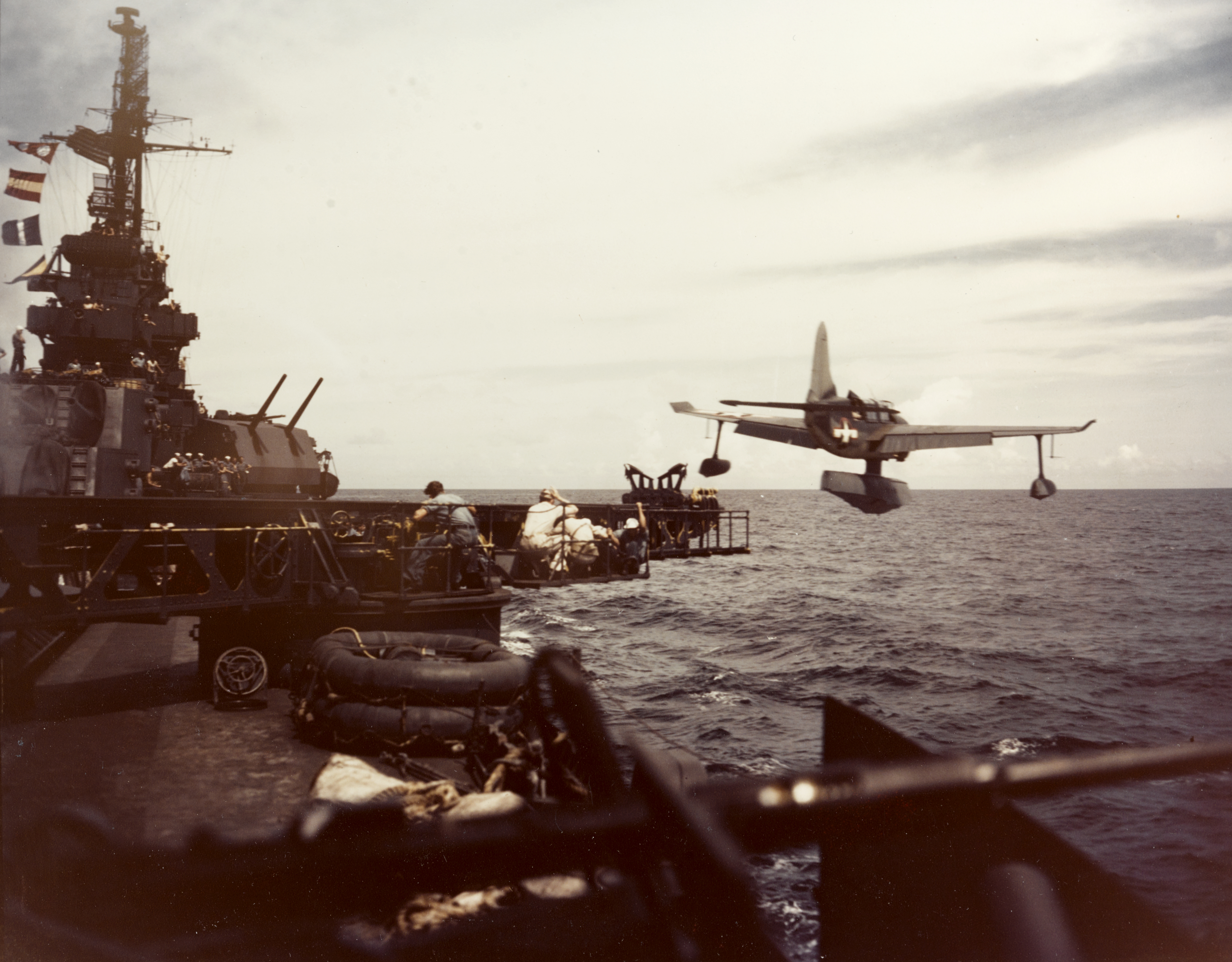 The U.S. Navy light cruiser USS Biloxi (CL-80) catapults a Curtiss SO3C Seamew while on shakedown, circa October 1943.